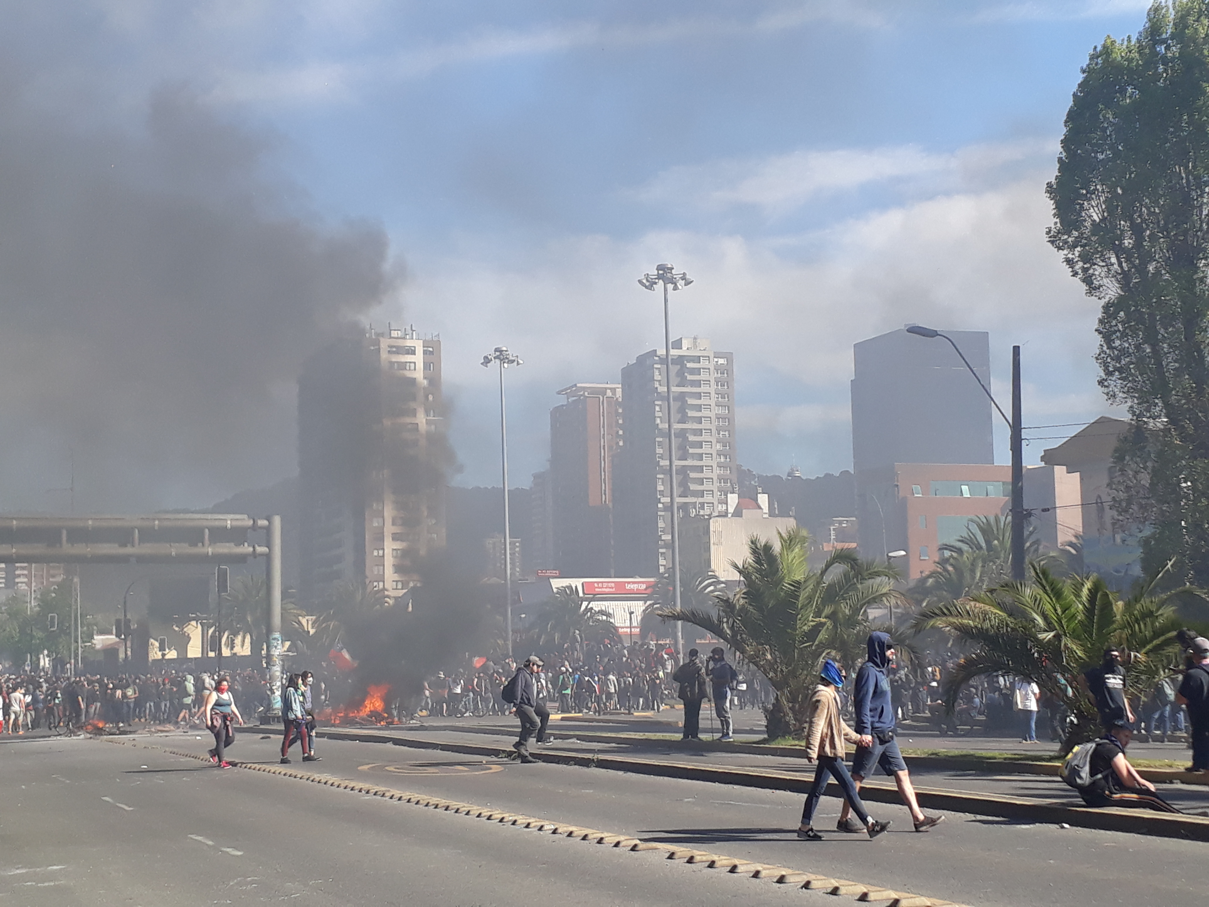 Picture taken at the intersection of Paicaví & Los Carrera avenues in downtown Concepción, Chile.